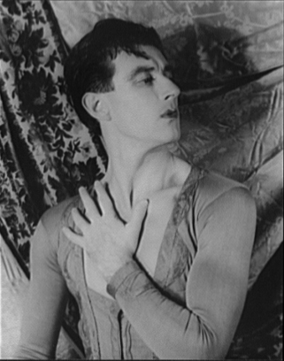 Portrait of Anton Dolin, in Spanish Dance. Photo taken by Carl Van Vechten, photographer.